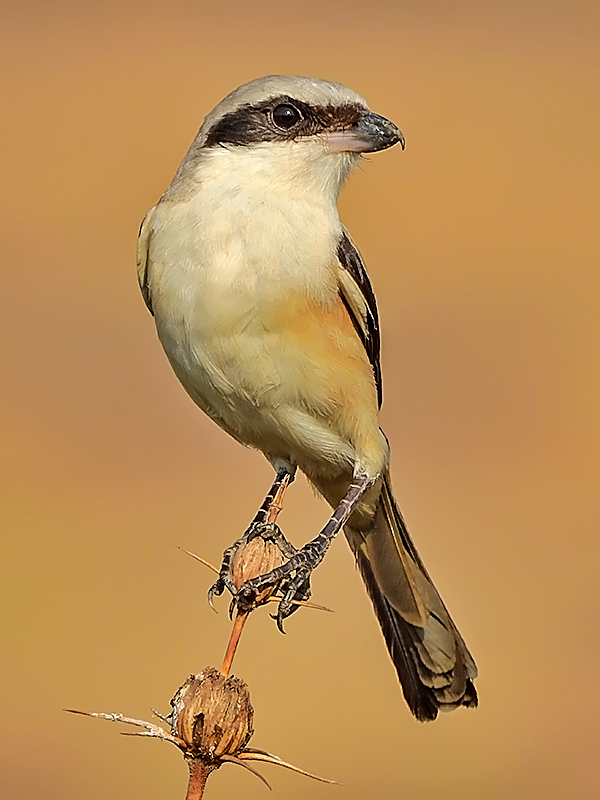 Long-tailed shrike or rufous-backed shrike (Lanius schach erythronotus) from Mangaon, Raigad, Maharashtra, India